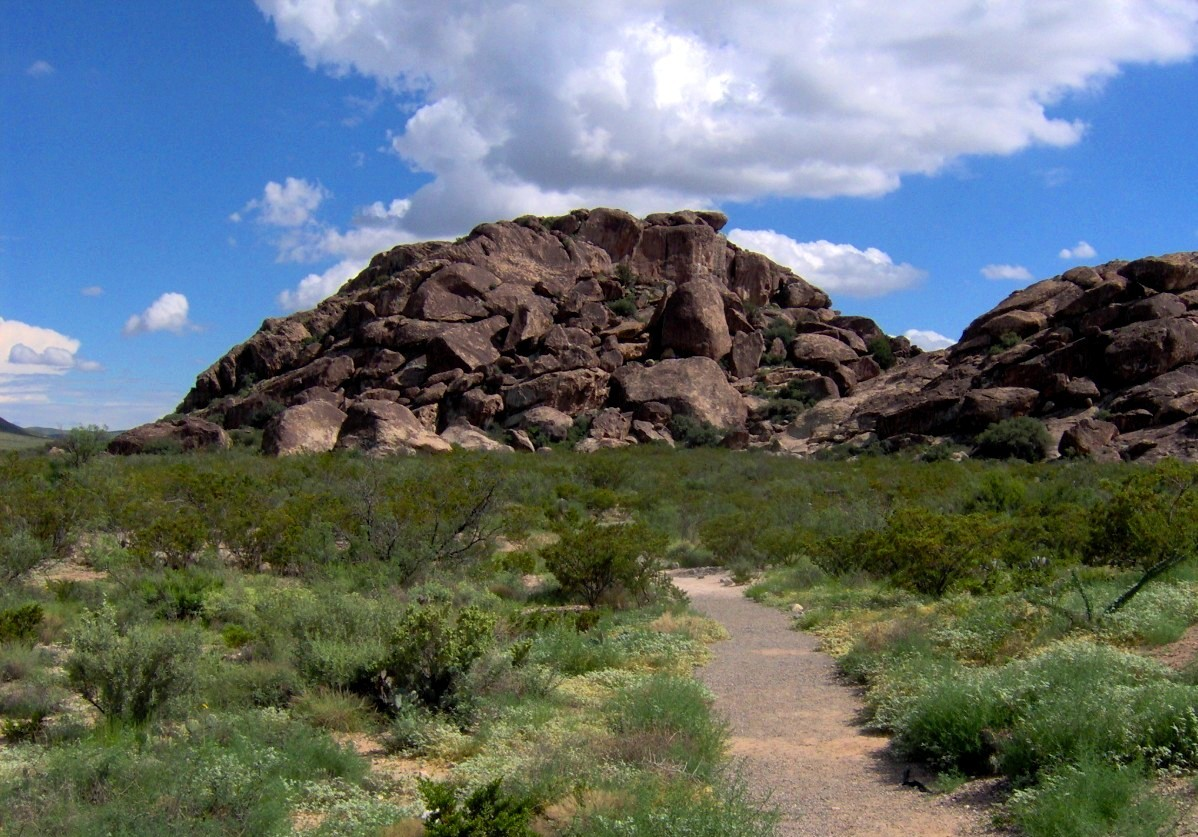 East Mountain at Heuco Tanks State Park near El Paso, Texas, in the southwestern United States.